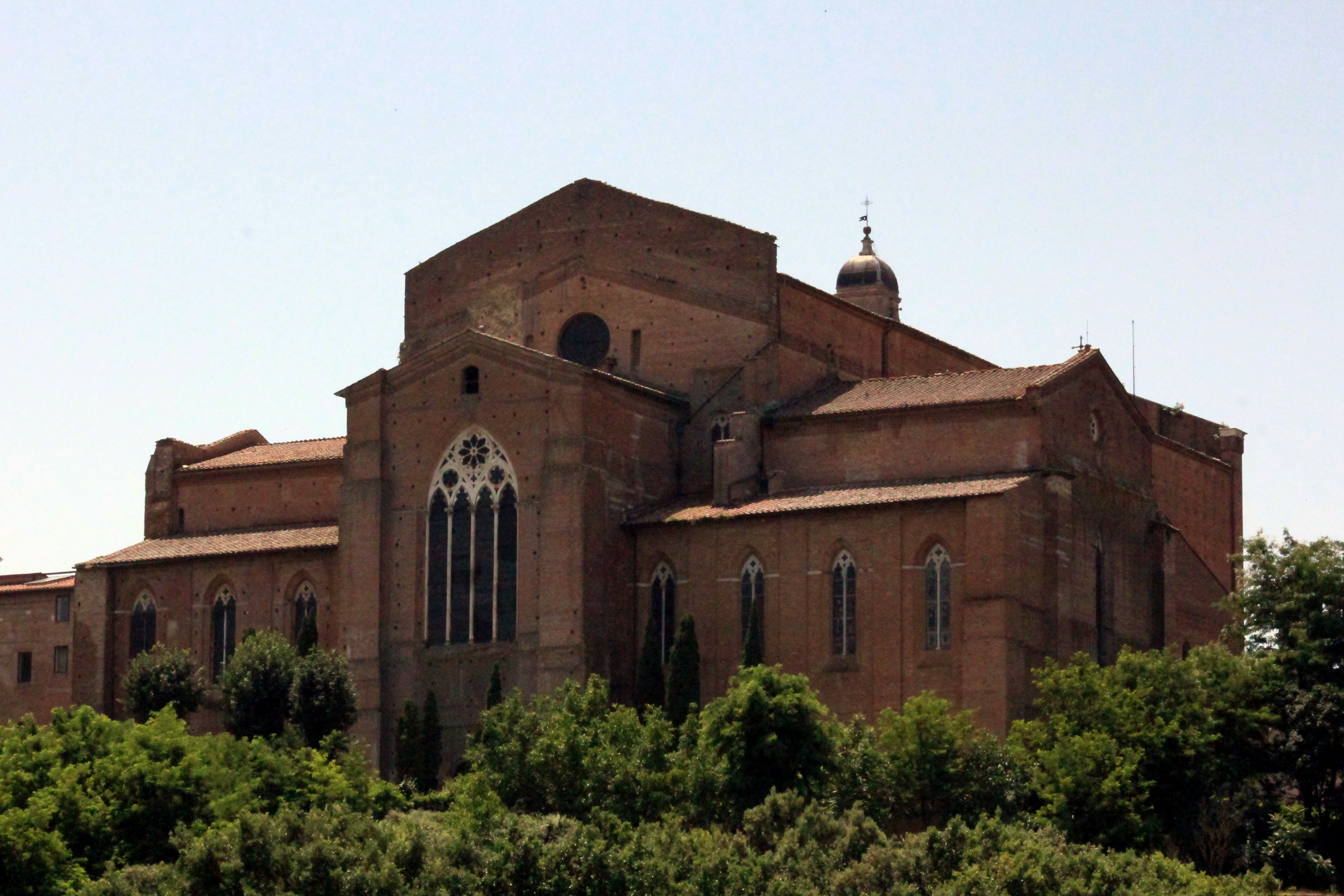 Church / Basilica of San Francesco, seen from north, with apse and left sideship, Terzo di Camollia, City center of Siena, Tuscany, Italy